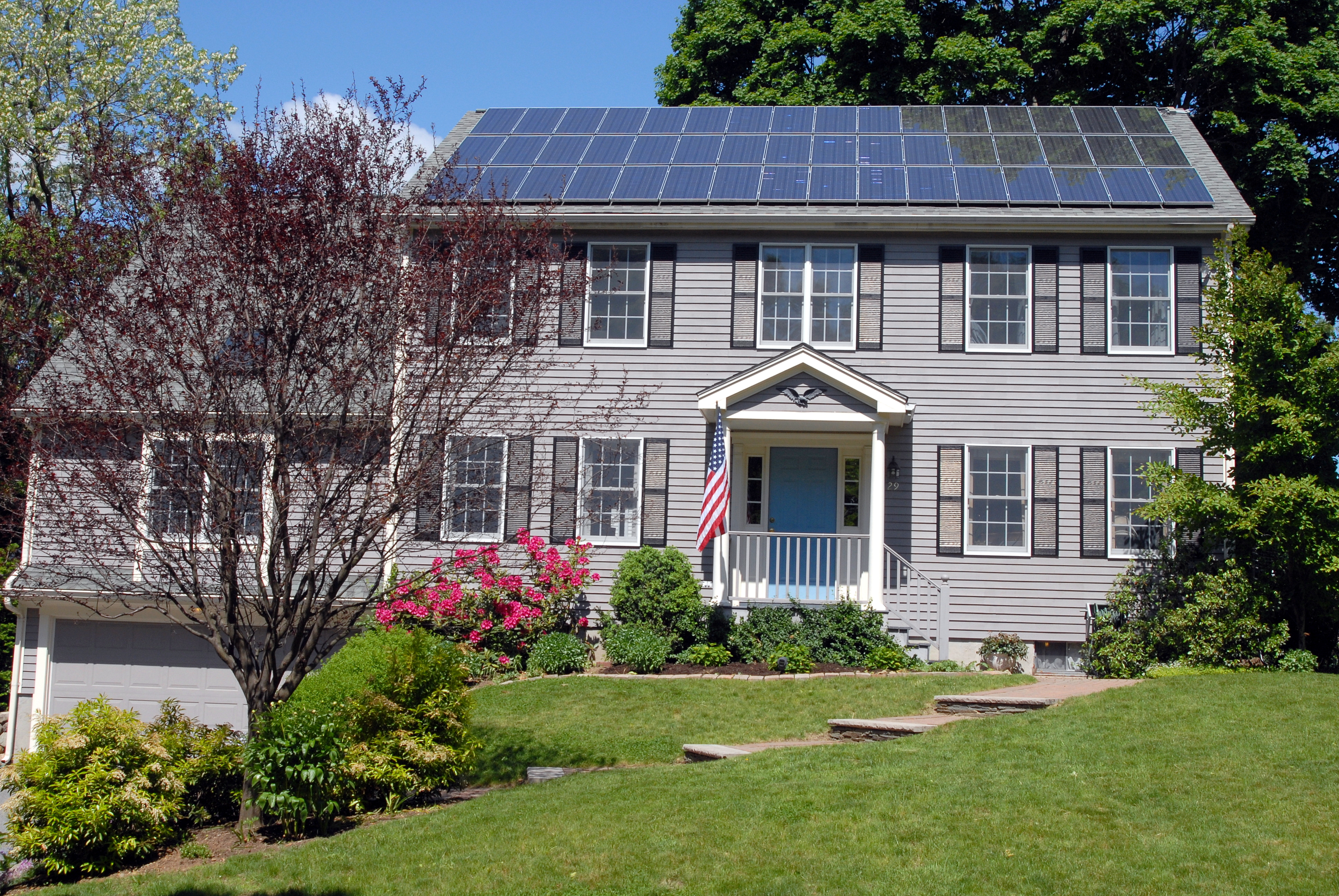 Photovoltaic solar cell panels on the roof of a house near Boston Massachusetts.